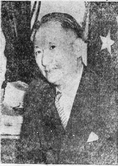 Gu Weijun